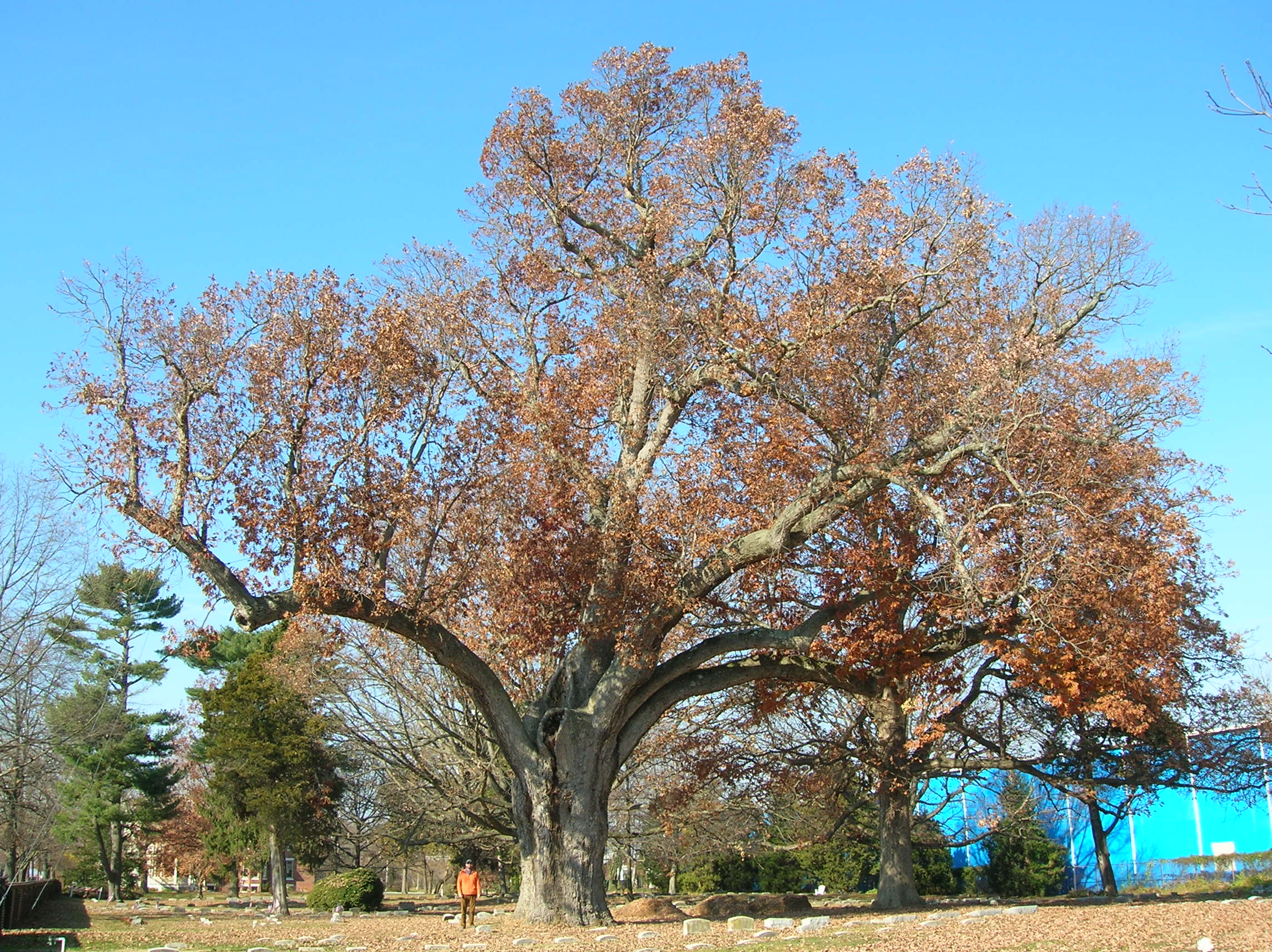 Historic oak tree located in Salem, NJ. Photo was taken in November 2012.